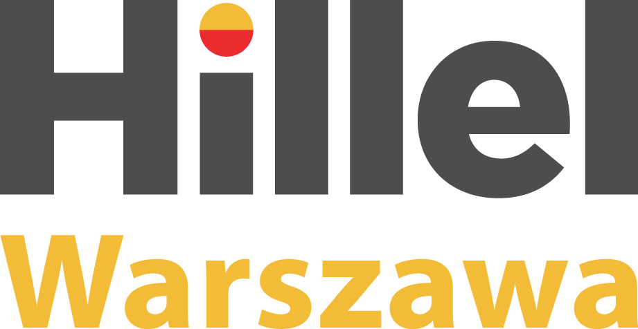 Hillel Warszawa